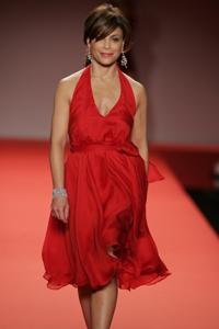 Paula Abdul in red dress. For the National Heart, Lung, and Blood Institute's "National Wear Red Day" to raise awareness about heart disease